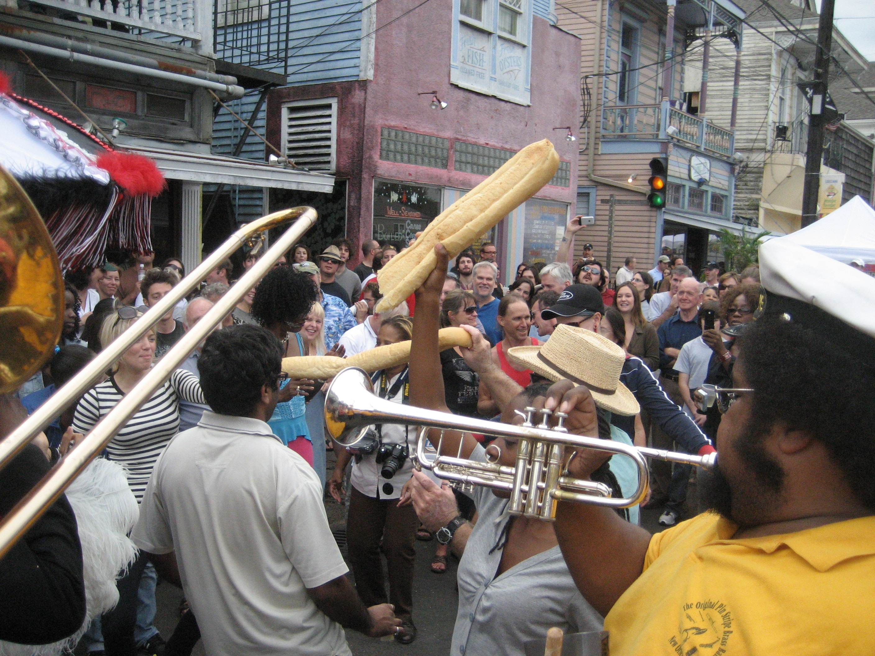 New Orleans: Second line parade at "Po-Boy Festival" on Oak Street. Impromptu "limbo" dancing under bagette.